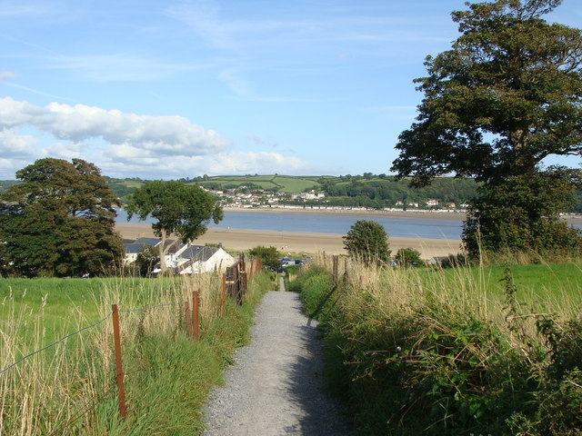 Footpath down to the river, Llansteffan